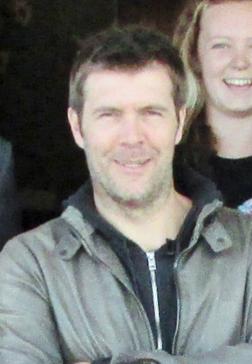 Rhod Gilbert, filming 'Rhod Gilbert's Work Experience' at the Fourcroft Hotel